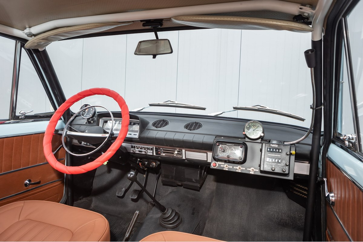 Lada VAZ 2101. ADAC Rallye Tour d'Europe 1971. Replica. Interior